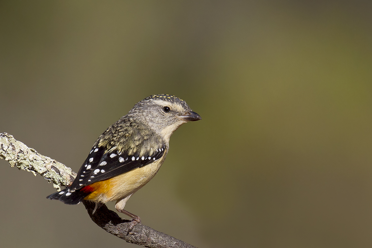 Strangways Vic.